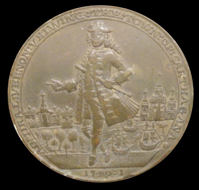 English medal commemorating the "taking" of Cartagena de Indias by admiral Edward Vernon during the War of Jenkins' Ear. The medal depicts admiral Vernon holding a command stick and finger pointing the city, with his fleet behind him. The medal says "Admiral Vernon Vhinning the Town of Carthagana". After the crushing defeat suffered by the English fleet in Cartagena, the medals were retired, but some were saved. Naval Museum of Madrid.